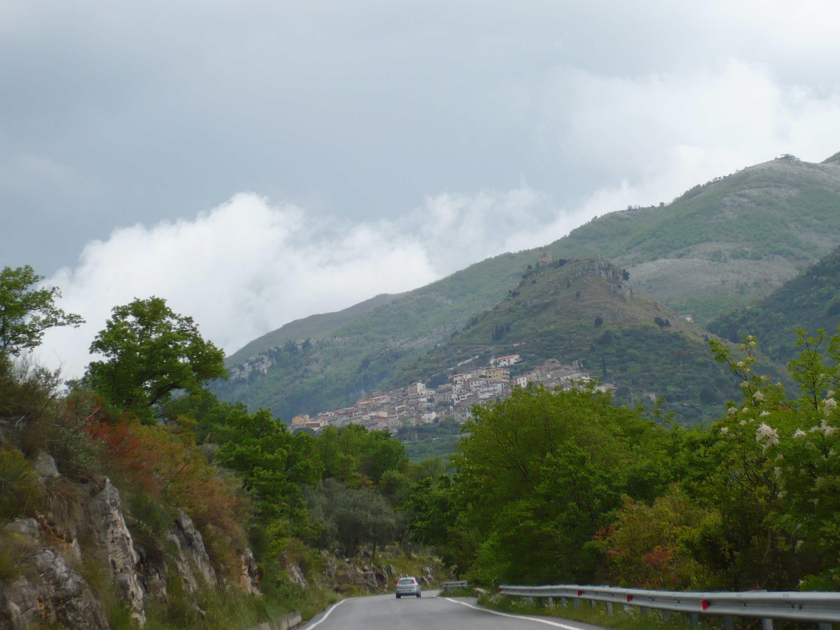 Esperia town center, Province of Frosinone, Latium Region, Italy